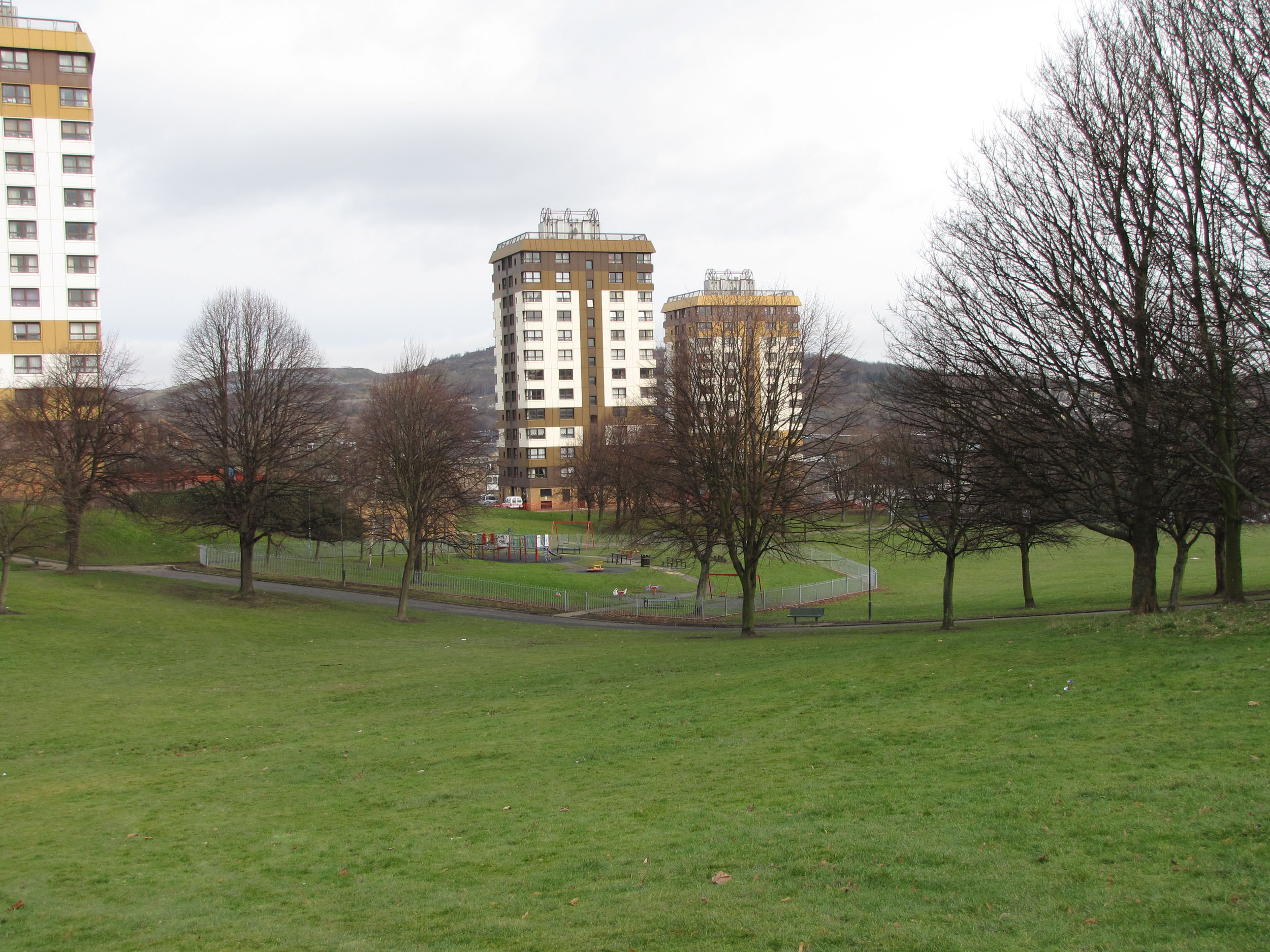 The Ponderosa Open Space & Recreation area in Sheffield, South Yorkshire, England.